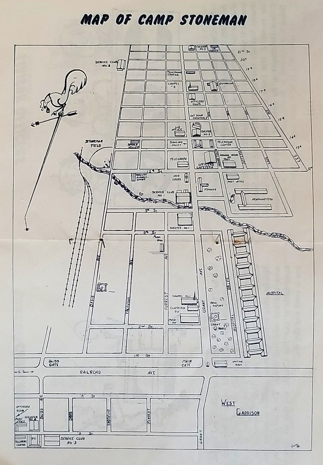 Map of Camp Stoneman from brochure "Welcome San Francisco Port of Embarkation," published in 1945 for returning troops.